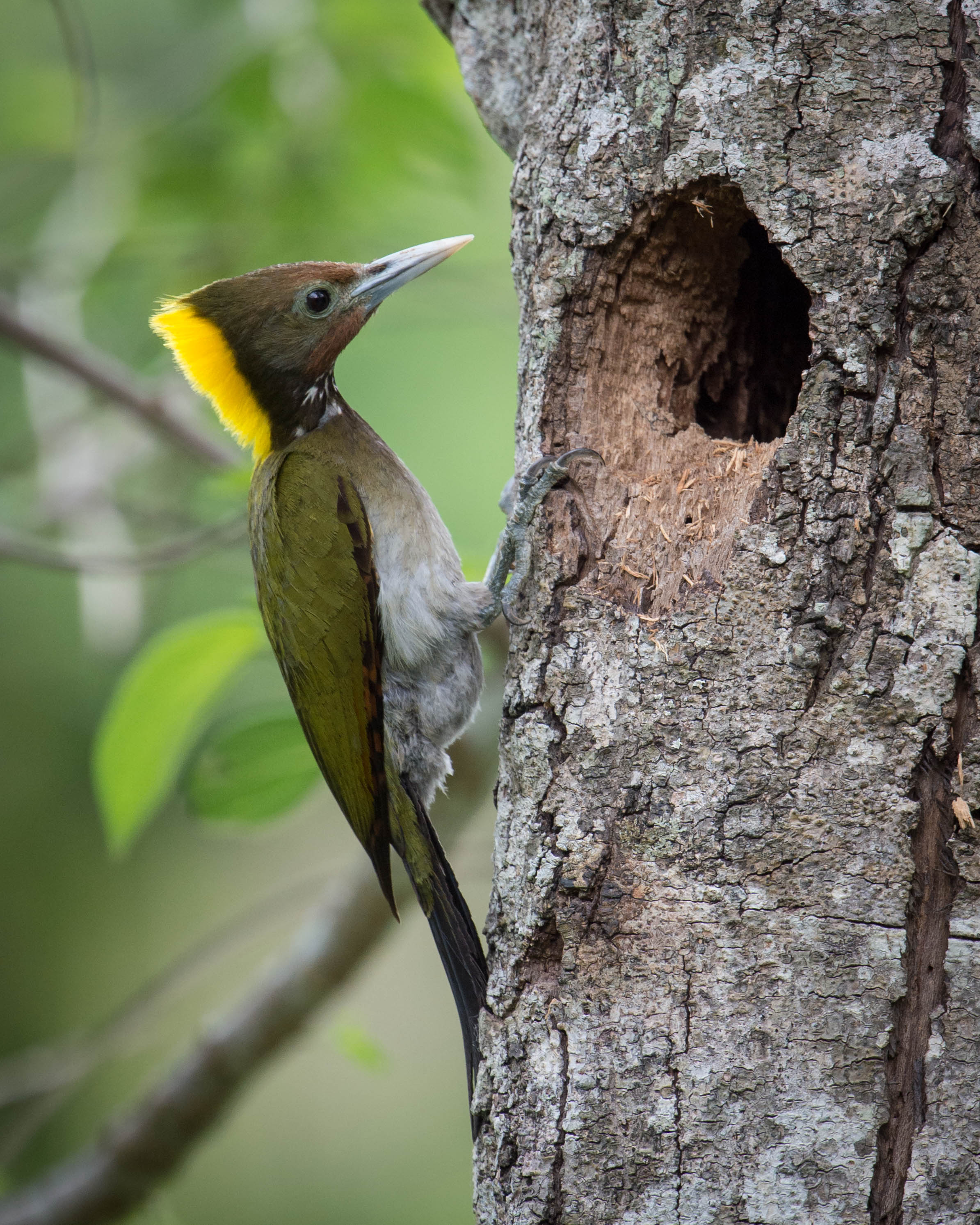 09 May 2013 Kaeng Krachan National Park, Phetchaburi, Thailand